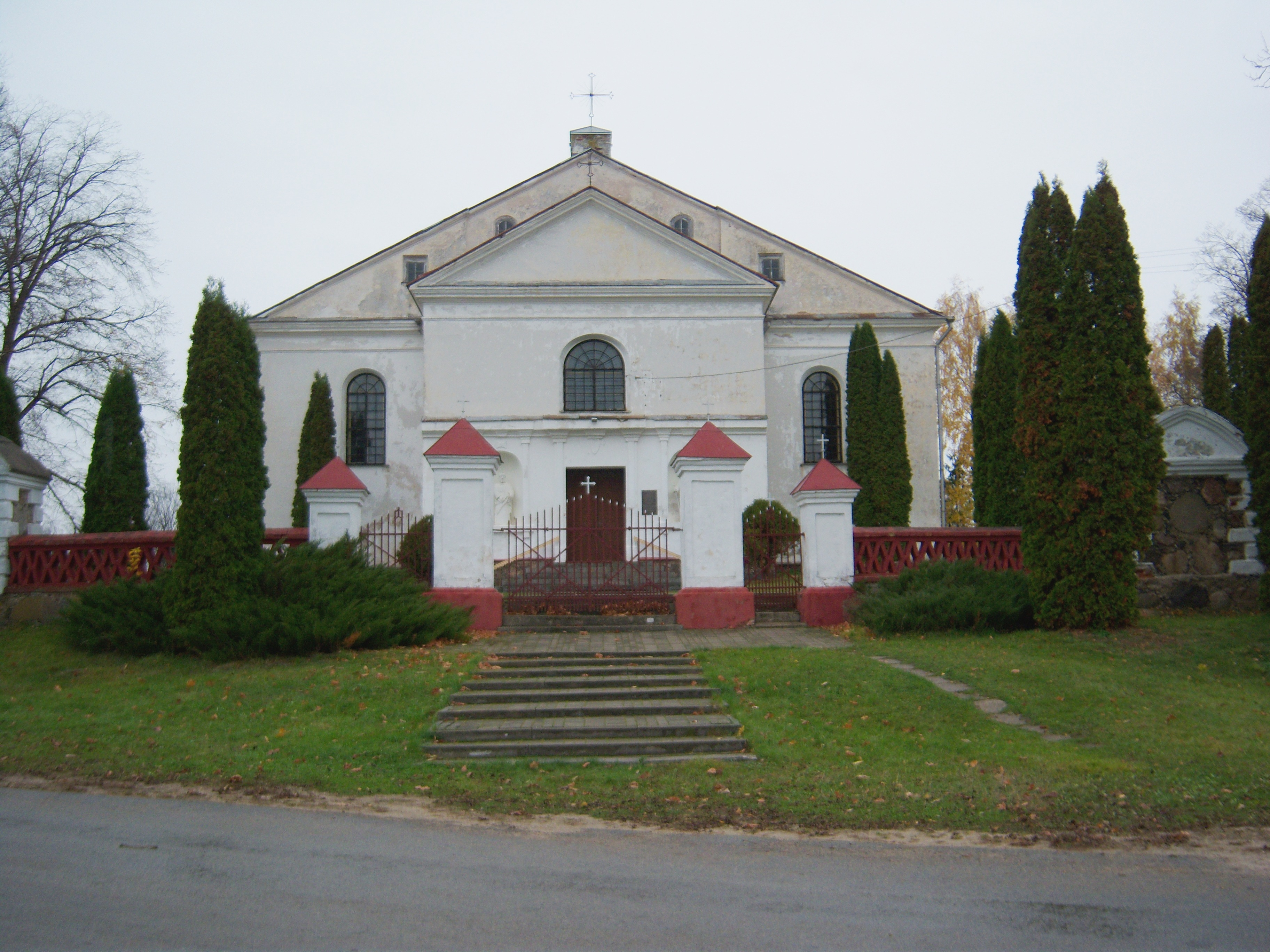 Roman Catholic Church in Skapiškis, Kupiškis District, Lithuania